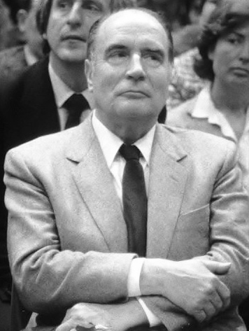 Cropped photo of François Mitterrand; noise reduced & color template changed to black-and-white by Emiya1980